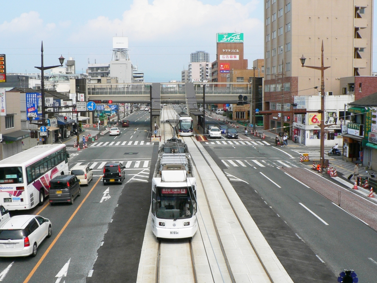 Kumamoto City Tram Shinsuizenji Station